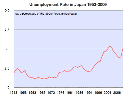 This graph displays the latest data on the unemployment rate of Japan.